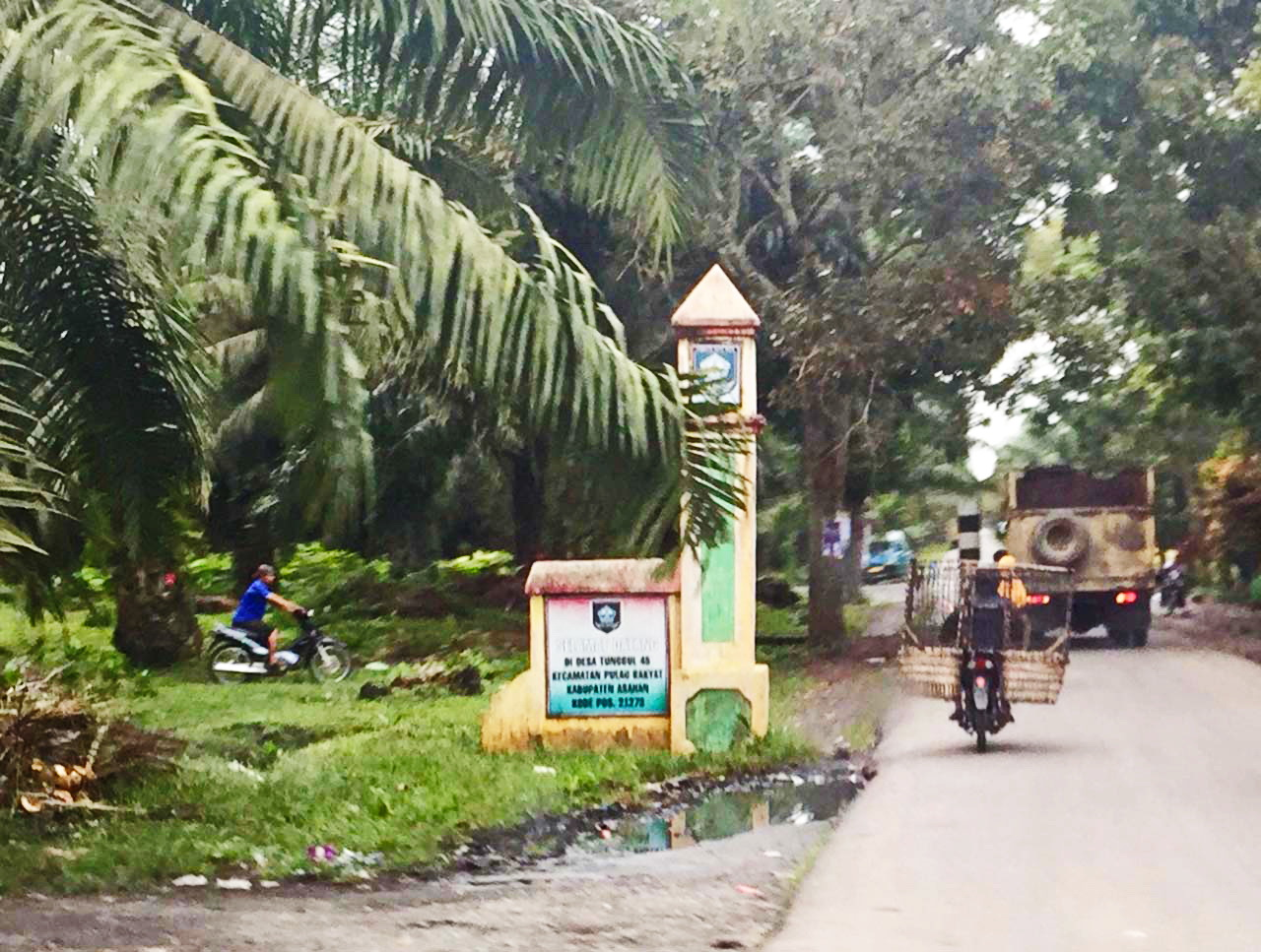 welcome gate to Tunggul 45, Pulau Rakyat, Asahan